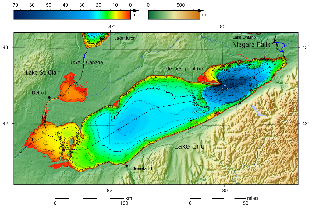 Lake Erie and Lake Saint Clair bathymetric shaded relief map contoured with interval 2 m (10 m with thicker lines). The deepest point is marked with "×". For land the vertical datum is sea level, for bathymetry low water datum of the lake. The map was created using the Generic Mapping Tools, GMT, version 5.1.1.